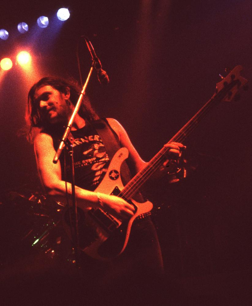 Ian 'Lemmy' Kilminster playing live with Motörhead in St. Albans, Hertfordshire in 1982